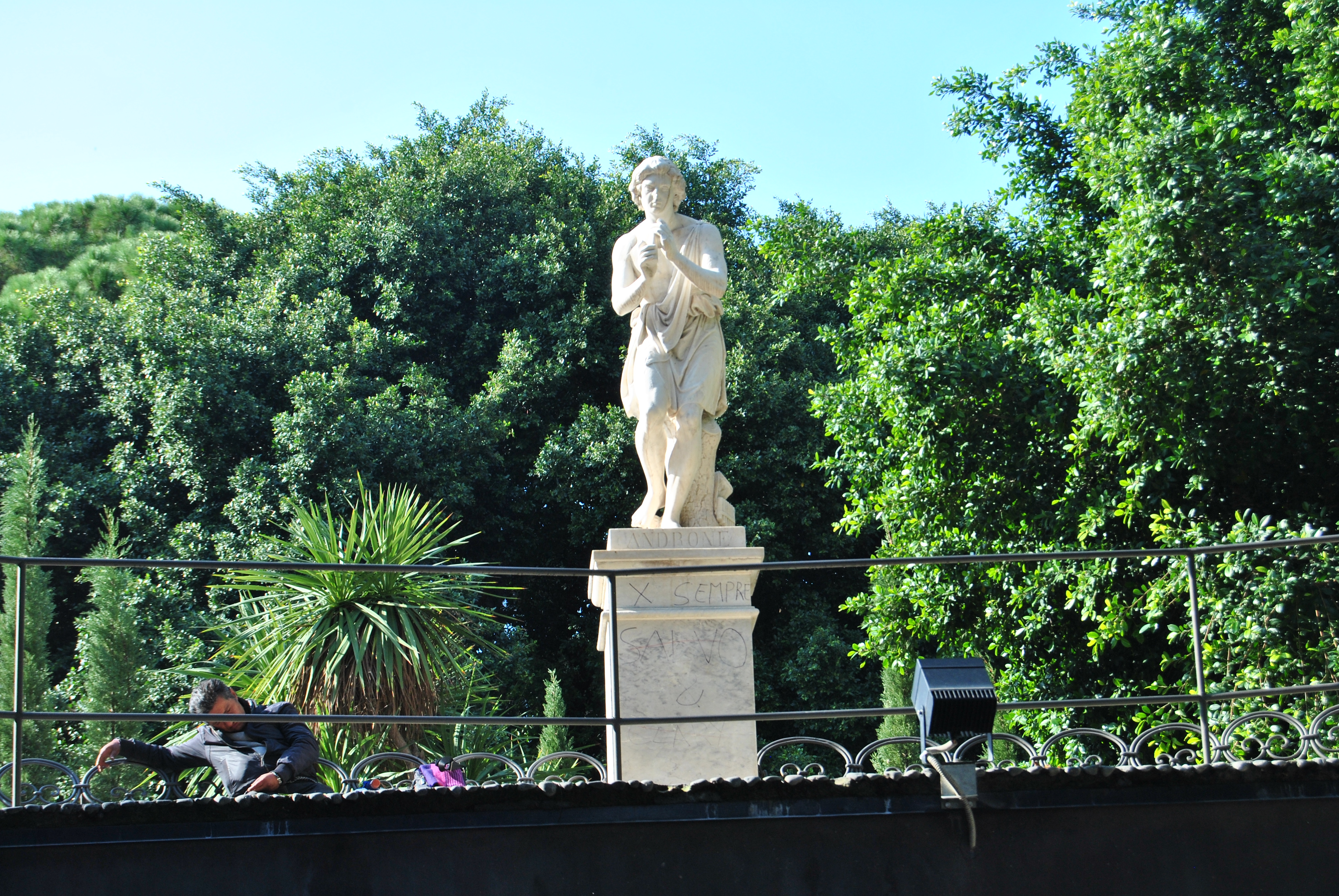 Androne